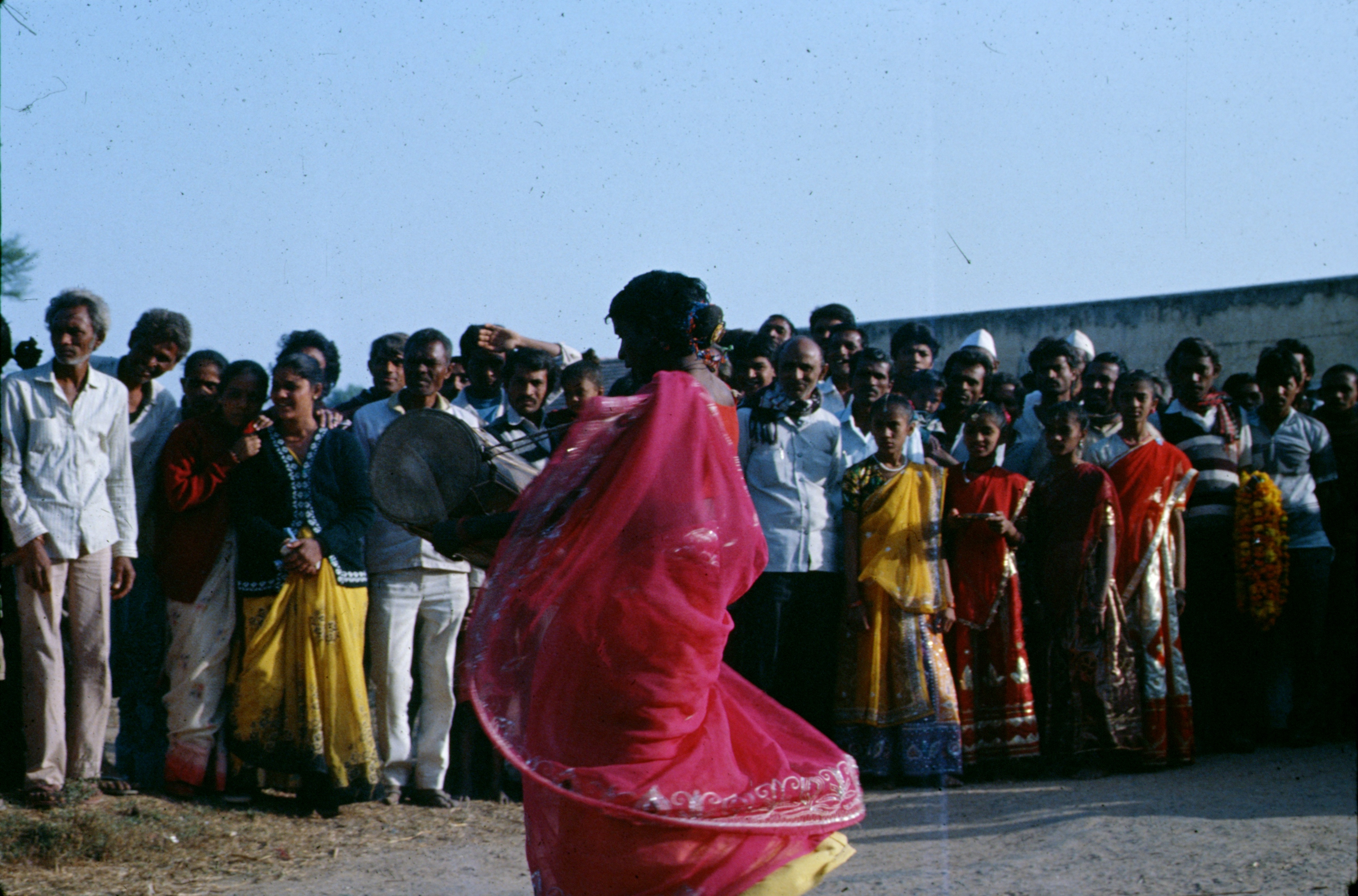 Travesti playing drum, Mitral, Kheda district, Gujarat